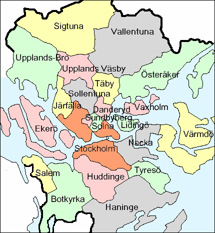 Metropolitan Stockholm, in Sweden Outlines and names are PD. The colors are subject to copyright to me.